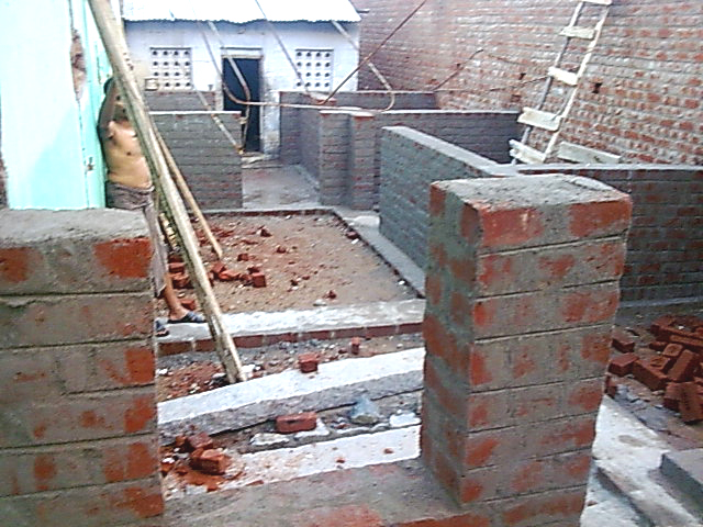 a home construction site in Tamil Nadu